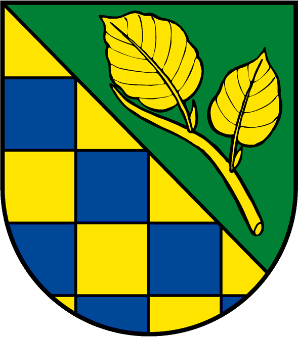 Coat of arms of Büchenbeuren